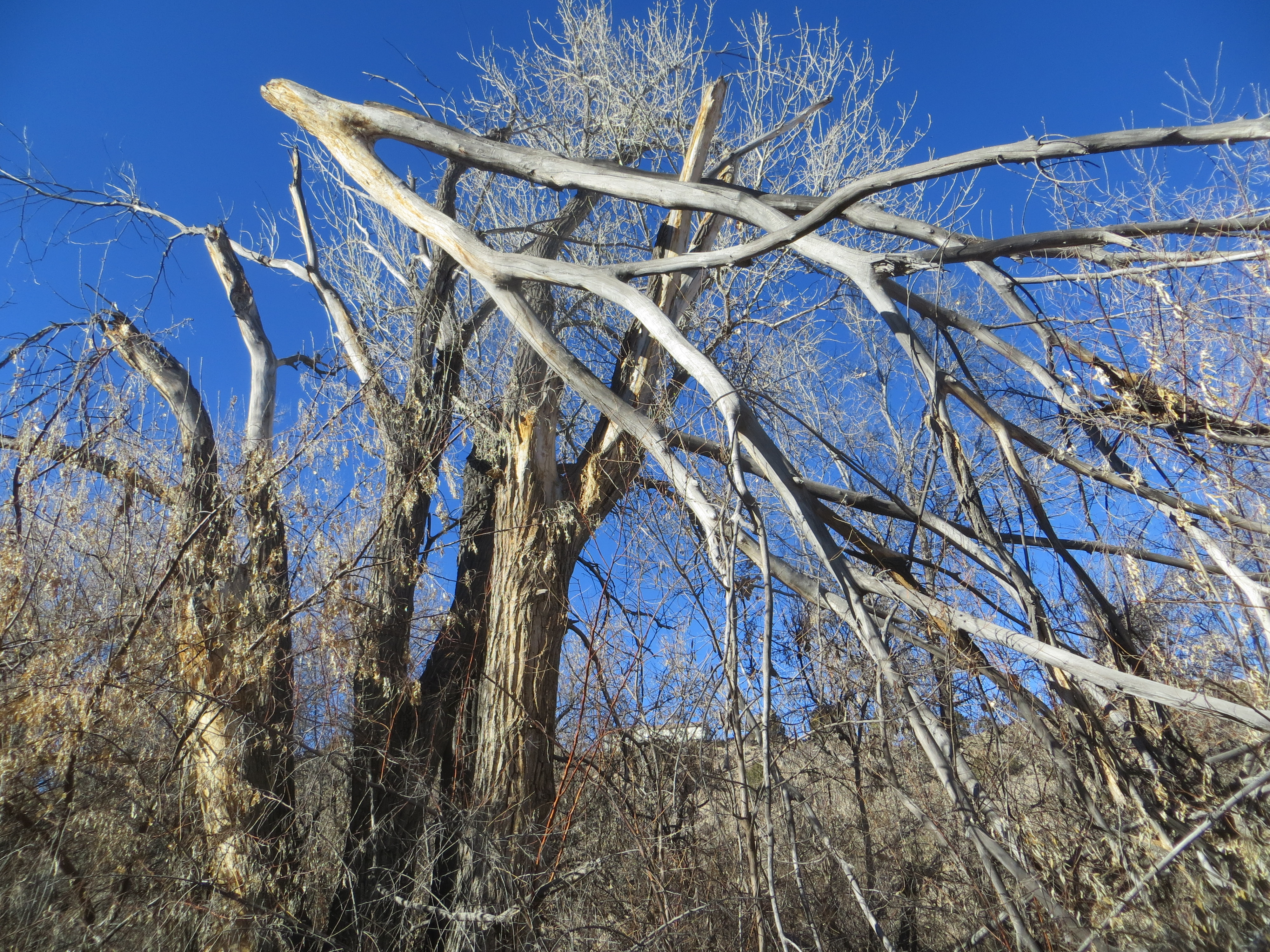 So called because it could fall and kill a man, making his wife a widow. This use of the term seems to have originated among male lumberjacks. This photo is also at